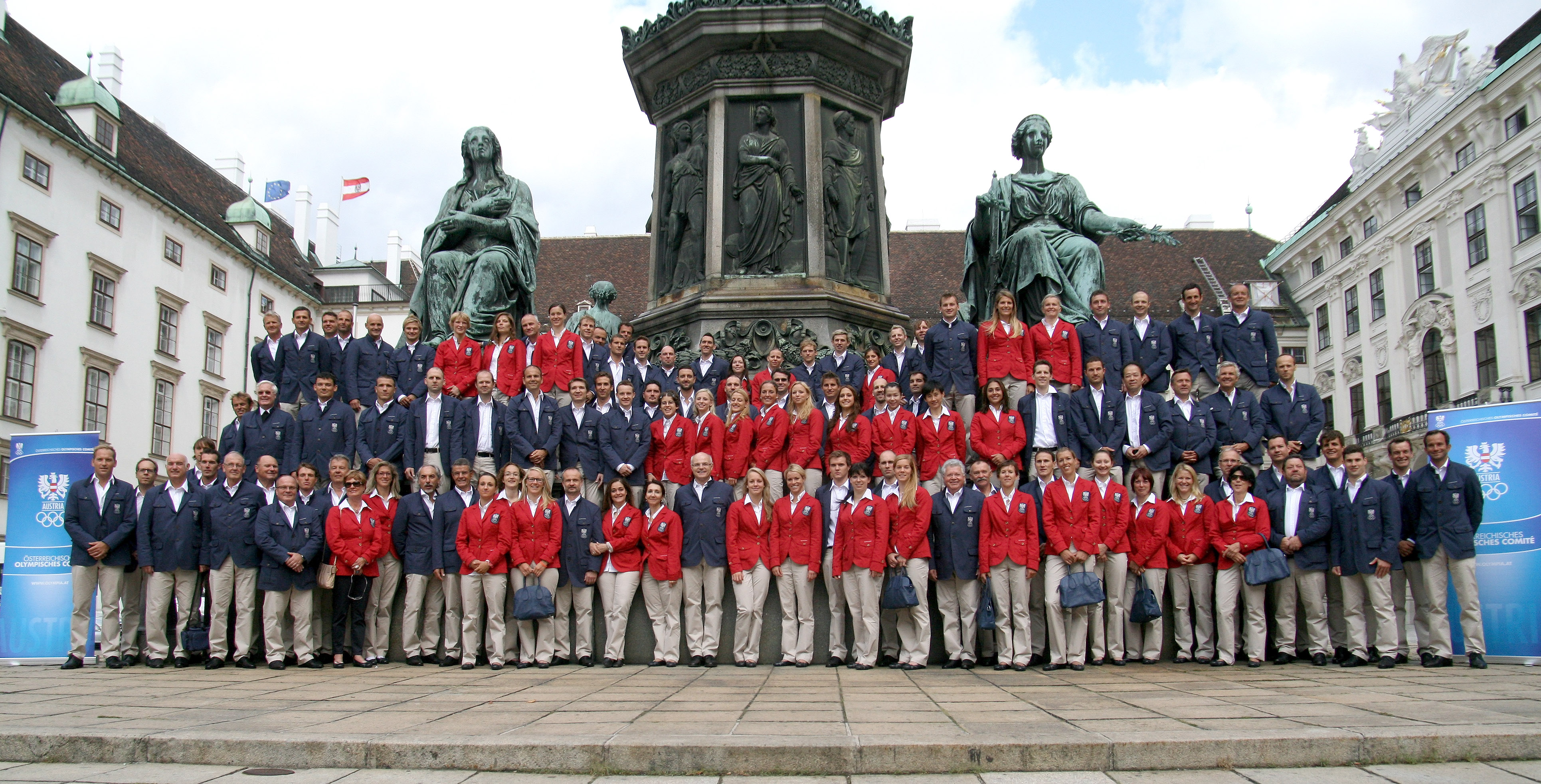 Group picture of the (incomplete) Austrian team for the 2012 Summer Olympics in London at the inner court of Hofburg Palace in Vienna.